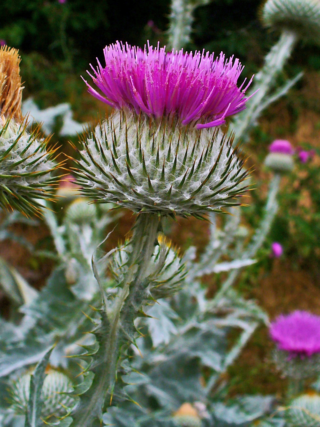 Onopordum acanthium, Asteraceae, Cotton Thistle, inflorescence; Stutensee, Germany.